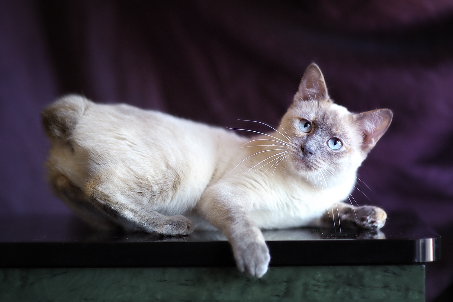 Mekong bobtail Airis Alerus Cofein Pride. Unique blue-cream-torty-point colour. Cofein Pride cattery (WCF).